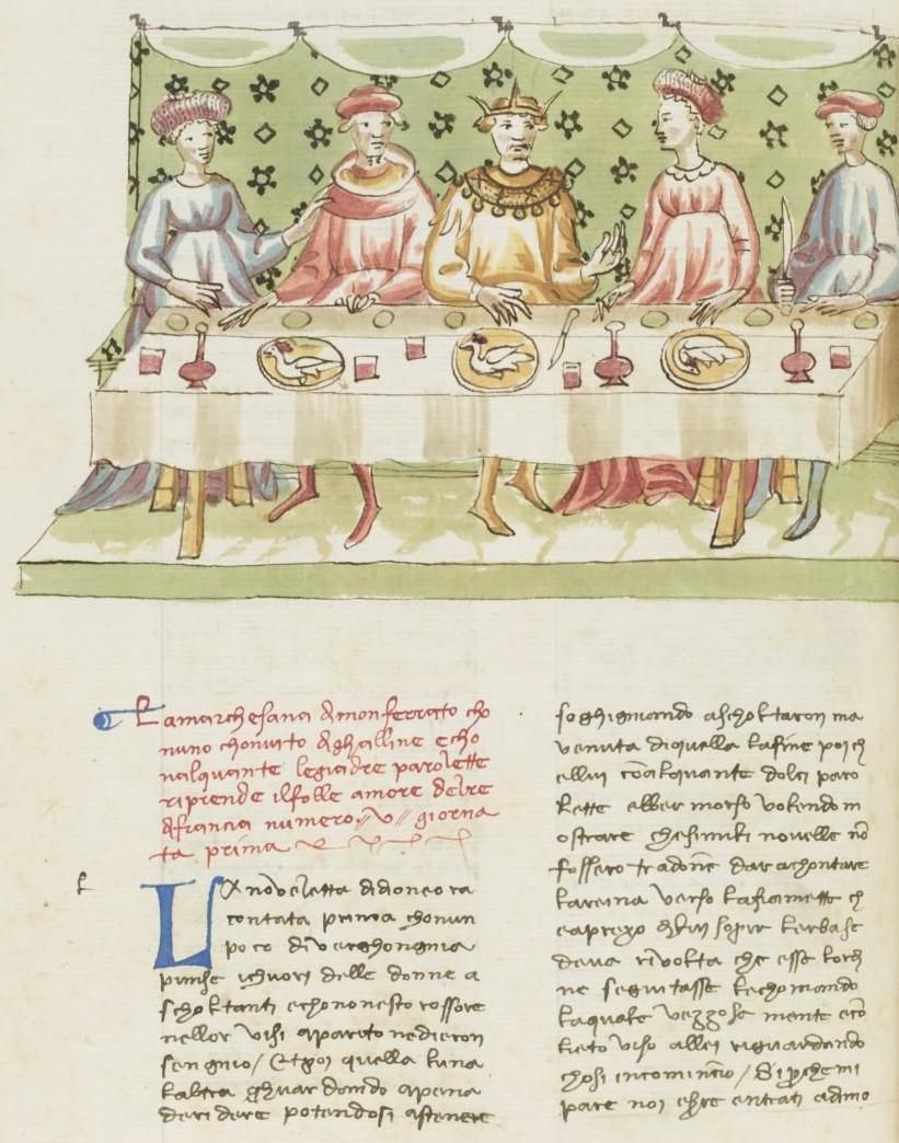 BNF MS Italien 63, fol. 22v: Boccaccio, Decameron: the story of the marchioness of Montferrat. First Day, Fifth Novella.